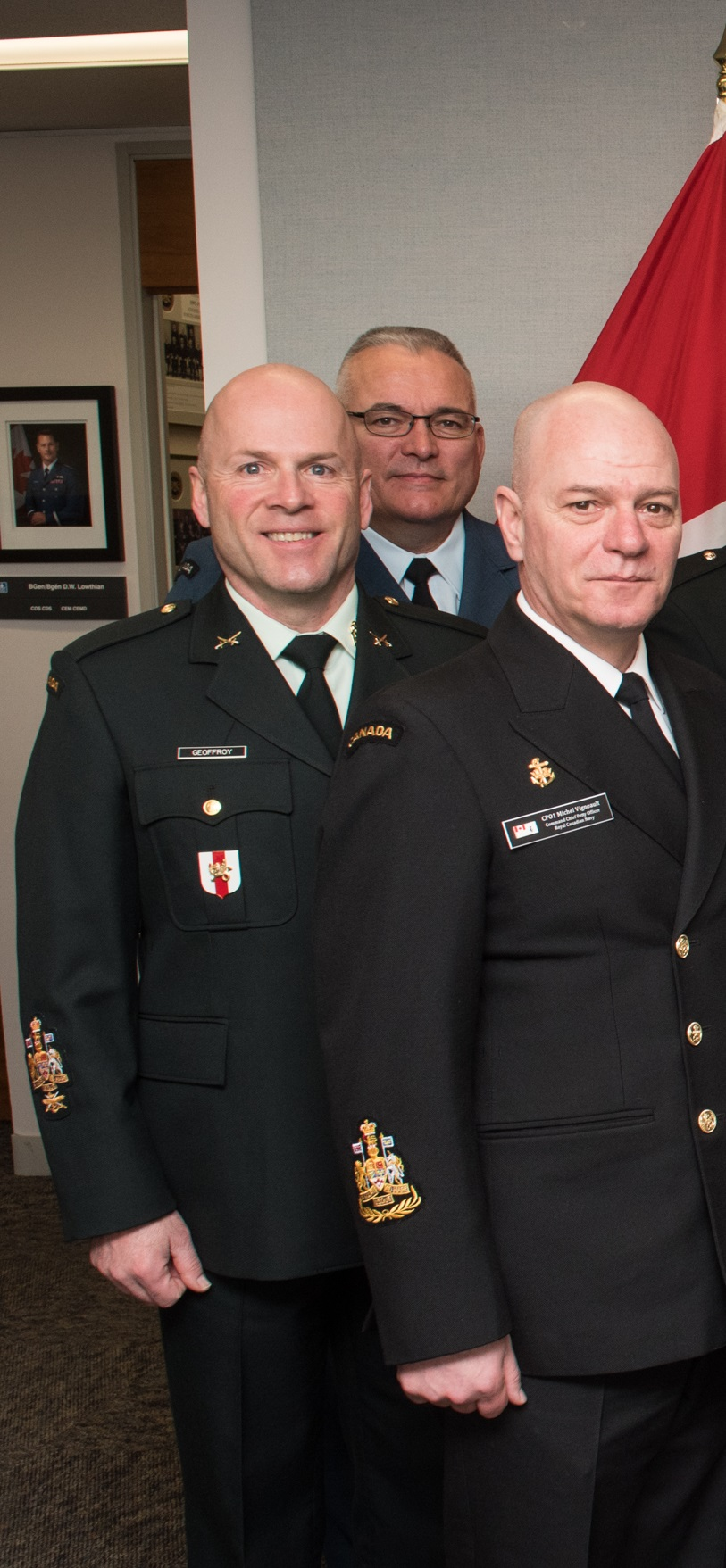 U.S. Army Command Sgt. Maj. John W. Troxell, Senior Enlisted Advisor to the Chairman of the Joint Chiefs of Staff, and Canadian Chief Warrant Officer Kevin C. West, Canadian Forces Chief Warrant Officer, pose for a photo with the members of the Canadian Forces Chief Warrant Officer Council, during a visit to Ottawa, Canada, Feb. 28, 2018. Command Sgt. Maj. Troxell joined U.S. Marine Corps Gen. Joe Dunford, chairman of the Joint Chiefs of Staff, in Ottawa for meetings with senior Canadian officials on the ongoing evolution of the North American Aerospace Defense Command. (DoD Photo by U.S. Army Sgt. James K. McCann)